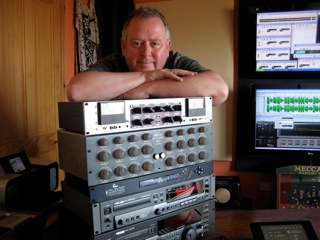 Denis Blackham, English music mastering engineer. A photo of my own image